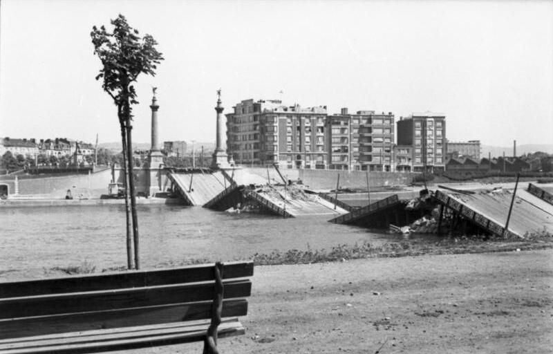 Information added by Wikimedia users.